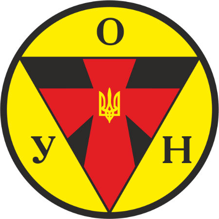 1-Early version of the emblem of the Organization of Ukrainian Nationalists with leader Stepan Bandera, early 1940s.